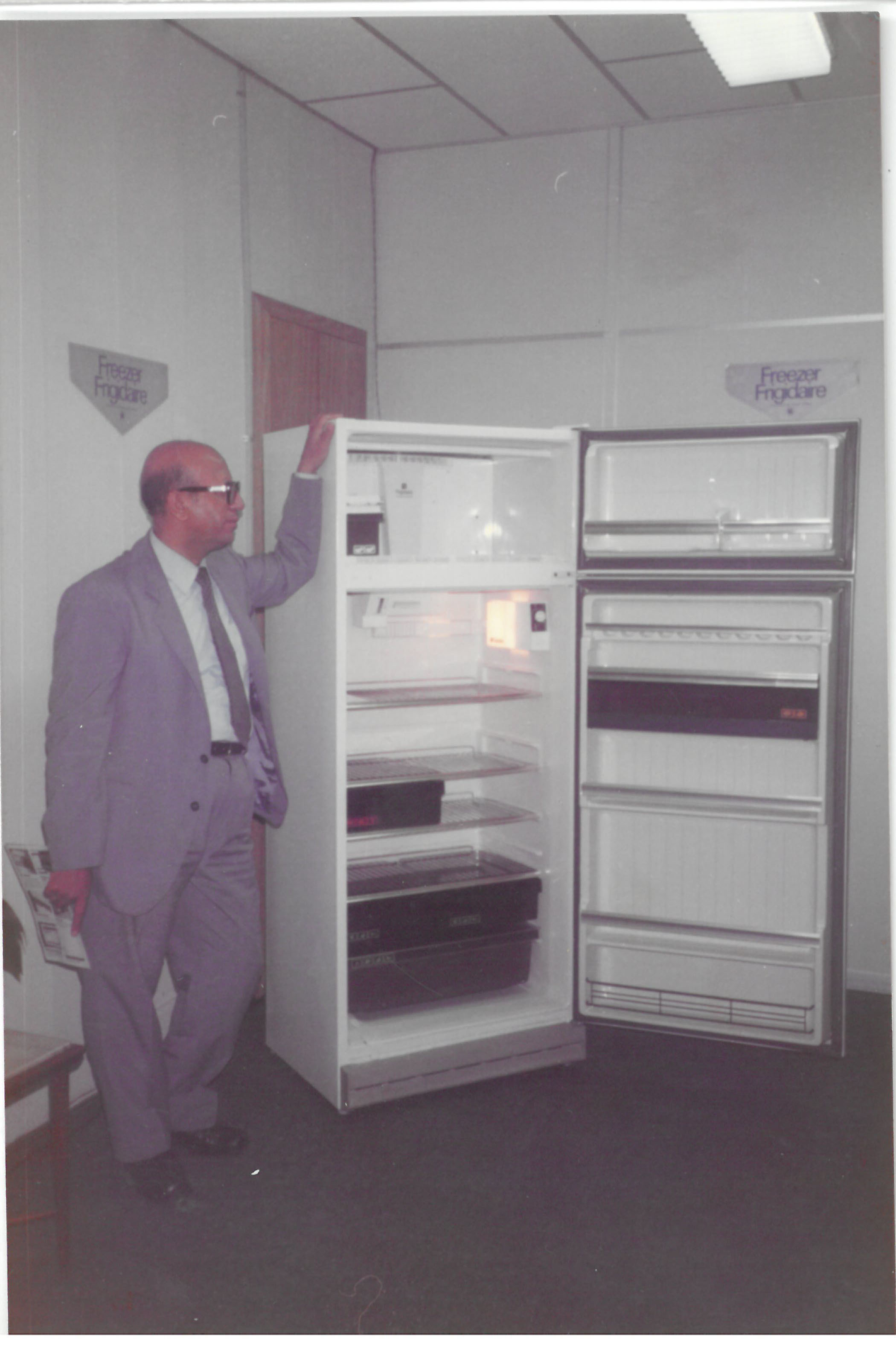 Hayder Murad throughout the years.